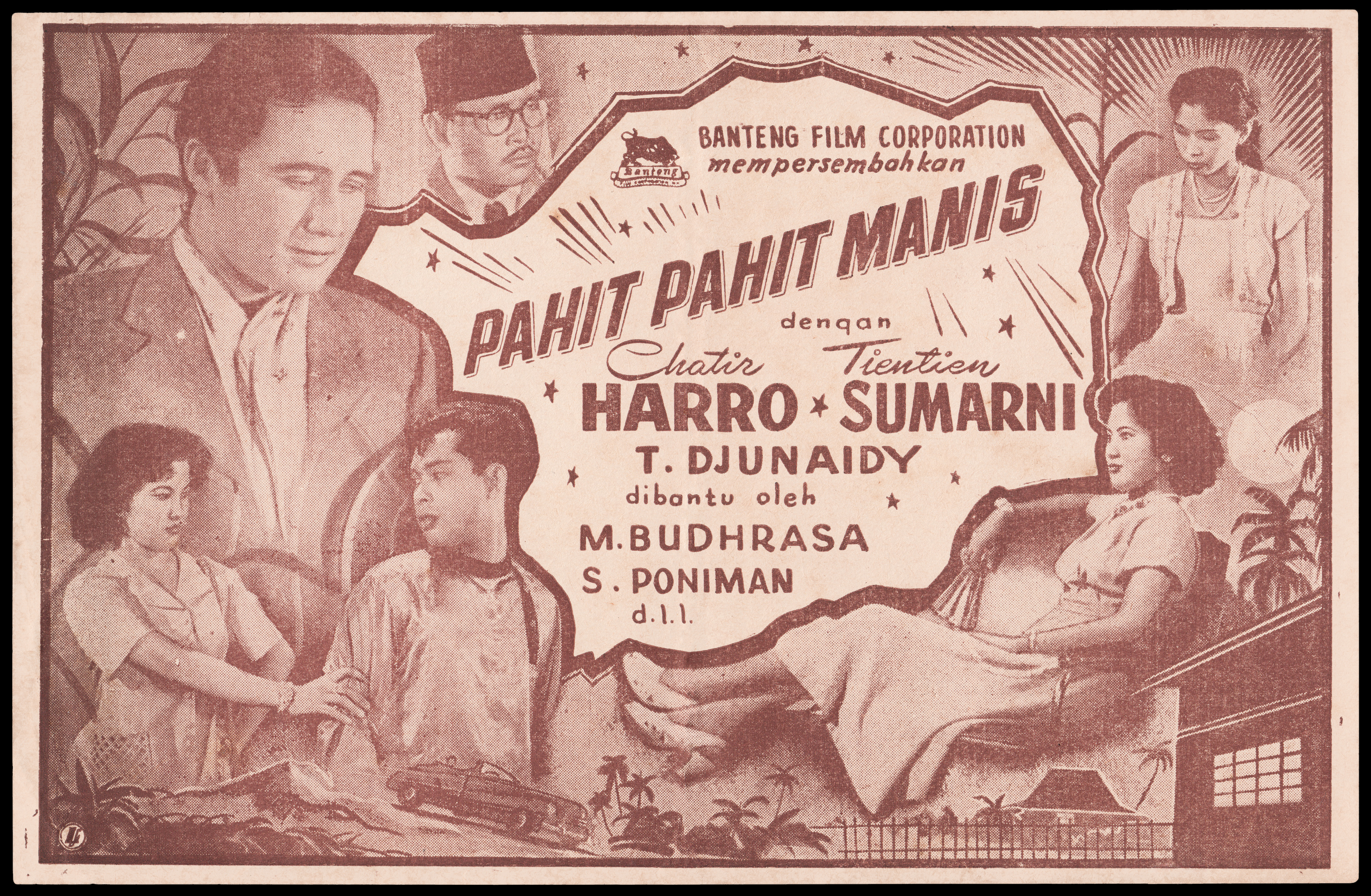 Obverse for a pamphlet advertising the 1952 Indonesian film Pahit-Pahit Manis. Printed by "Constance" Printing Company.